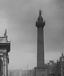 Nelson's Pillar, 1916 Category:Public art in Ireland